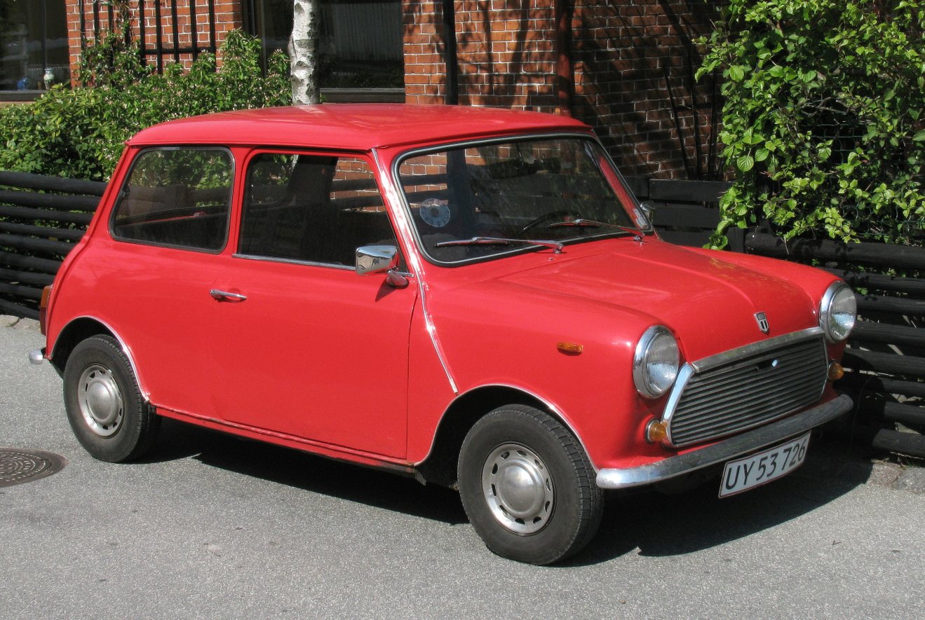 1970 Mini 850 or 1000 DeLuxe in Denmark, registered there since 13 May 1970.